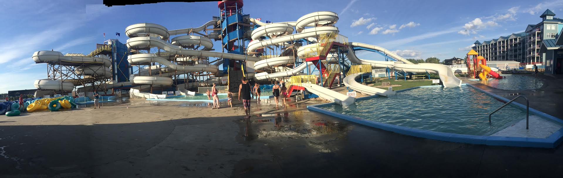 A panorama view of the park.